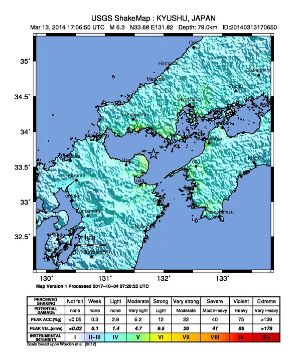 M 6.3 - 15km NNE of Kunisaki-shi, Japan - intensity